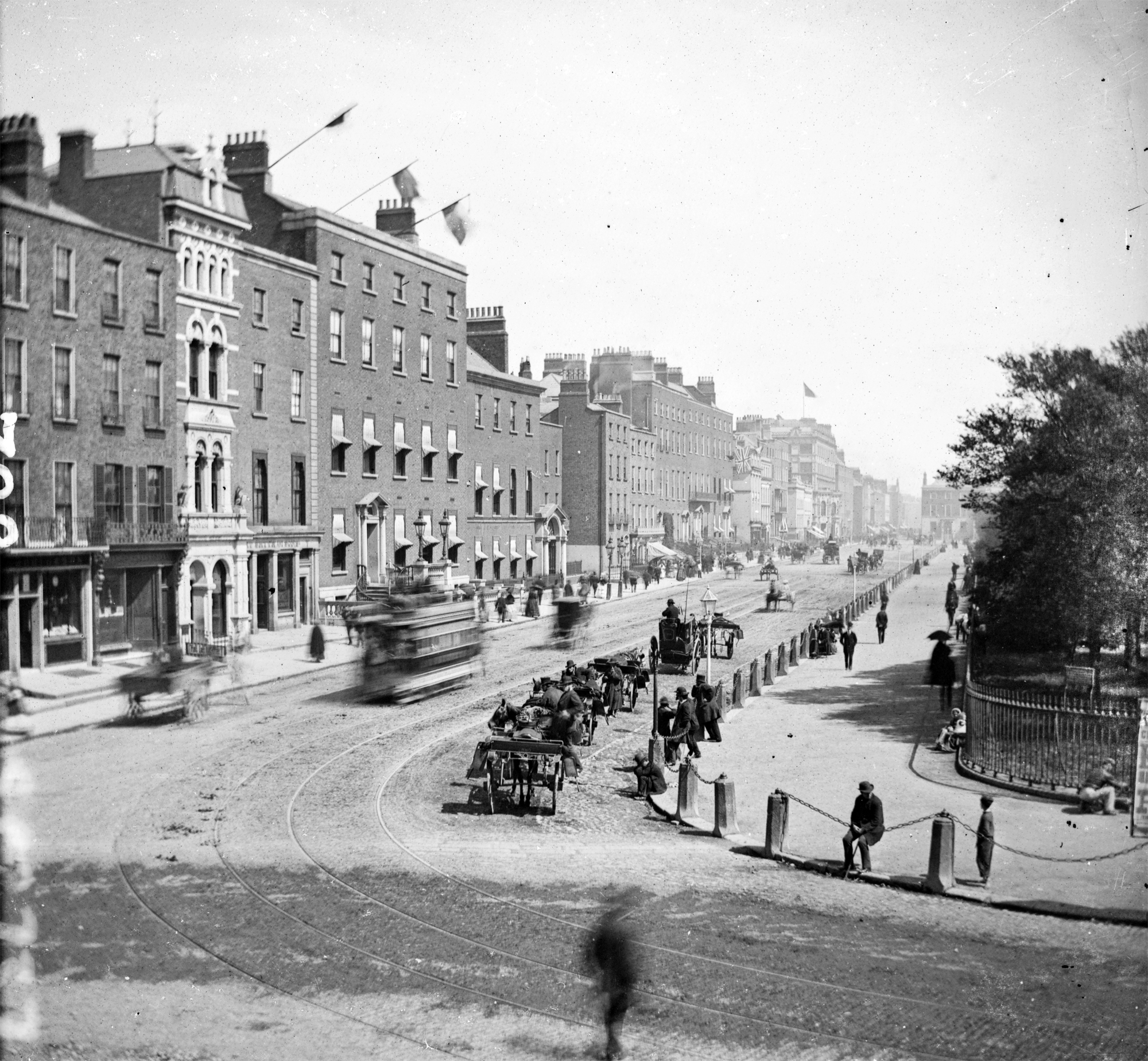 This corner in Dublin is relatively unchanged, I think. Wish it were possible to make out some of the business names along the left side, but they're just too unclear. Fascinating to see so many women using umbrellas/sun shades... Date: 1873-1878 NLI Ref.: STP_2737